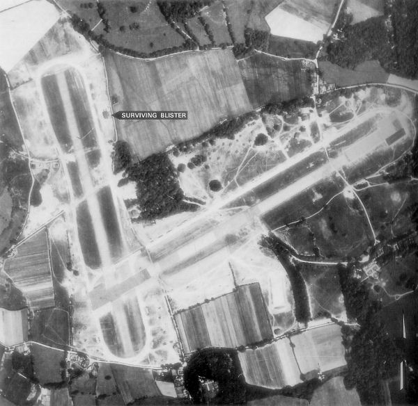 Aerial photograph of Lymington Airfield, Hampshire, England.